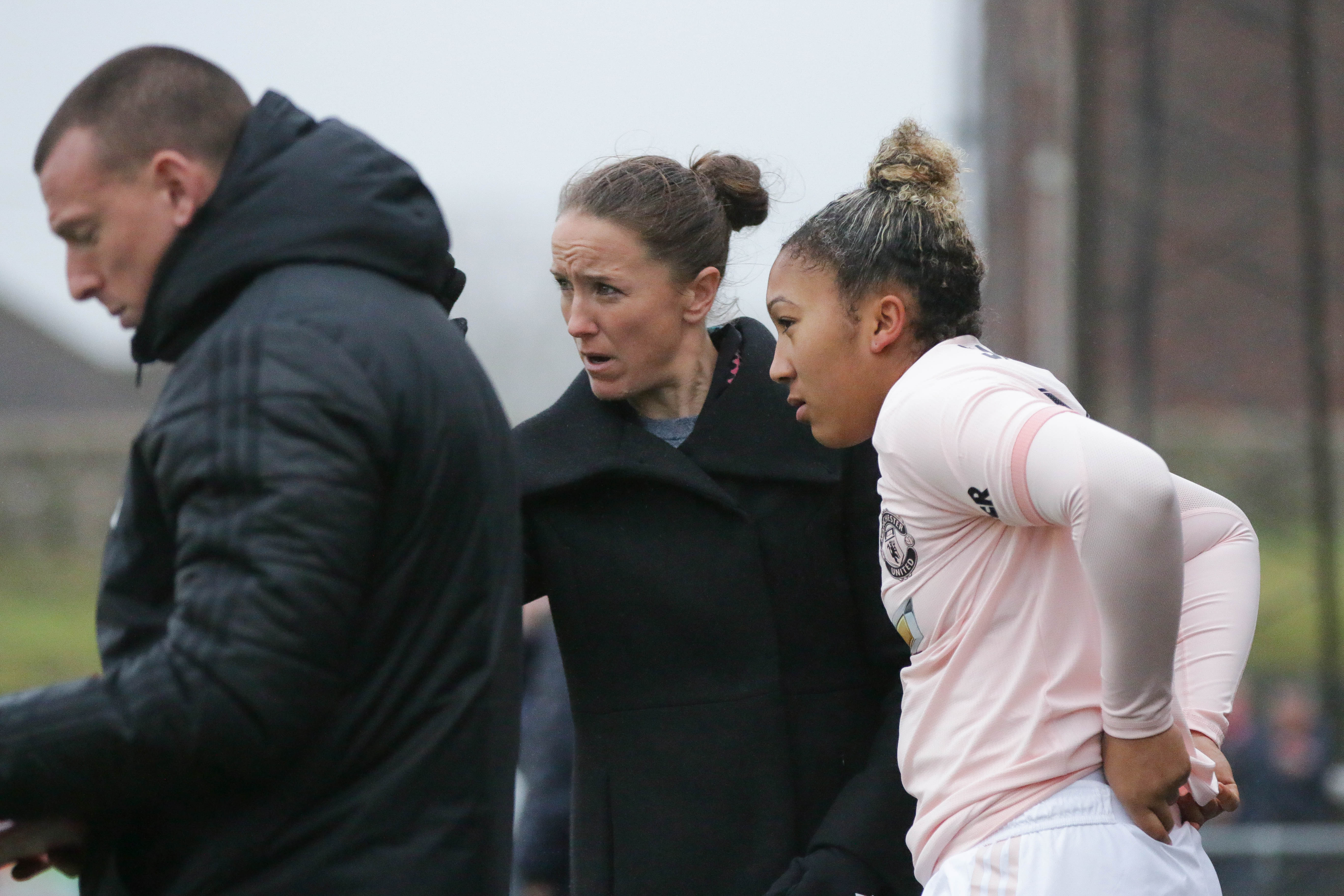 Casey Stoney and Lauren James